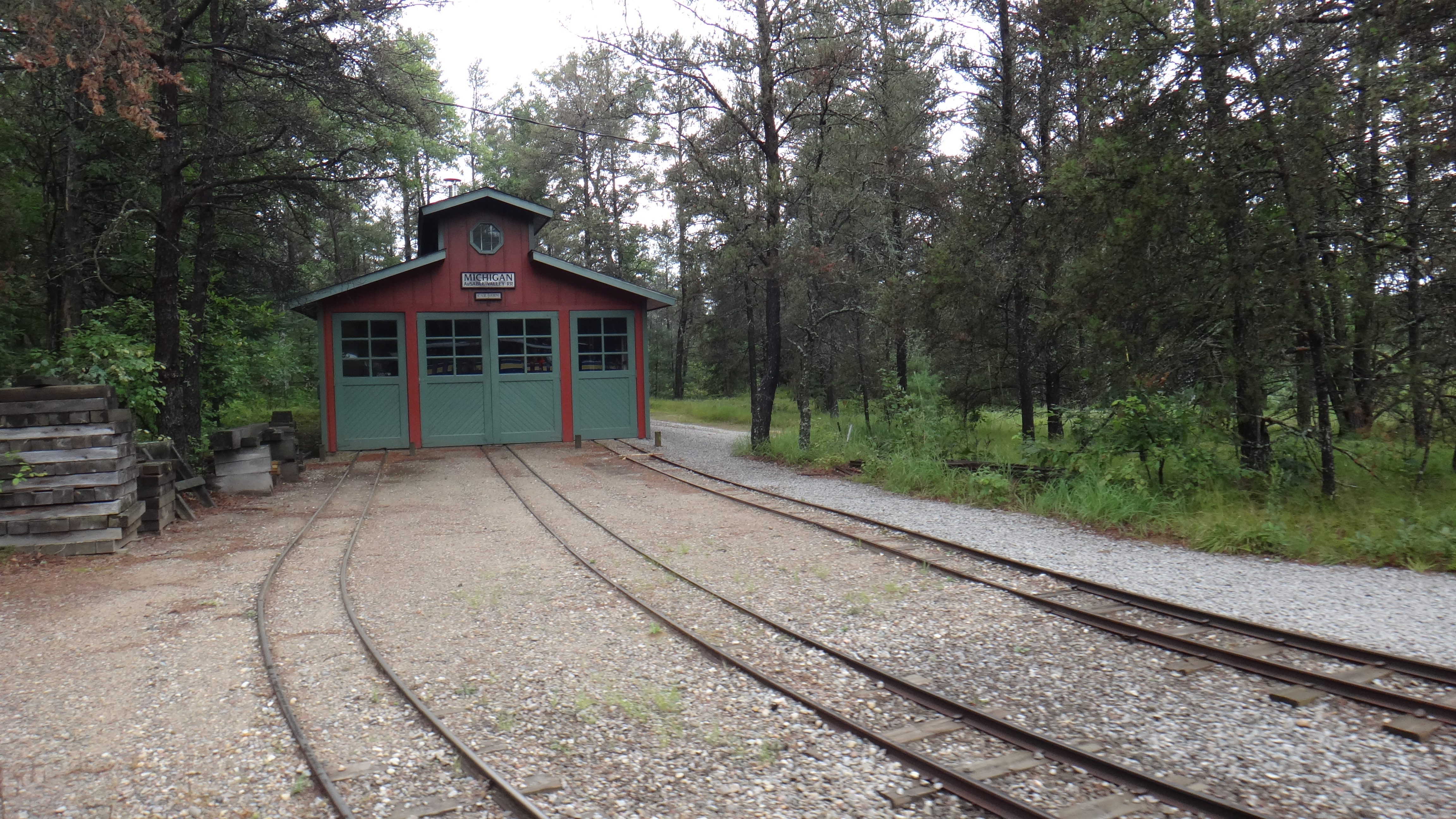 View of the 72ft long Engine House on the Michigan AuSable Valley Railroad.